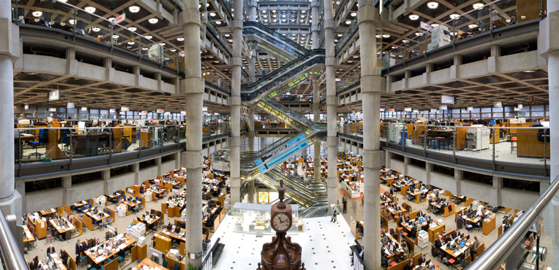 Inside the Lloyd's building.